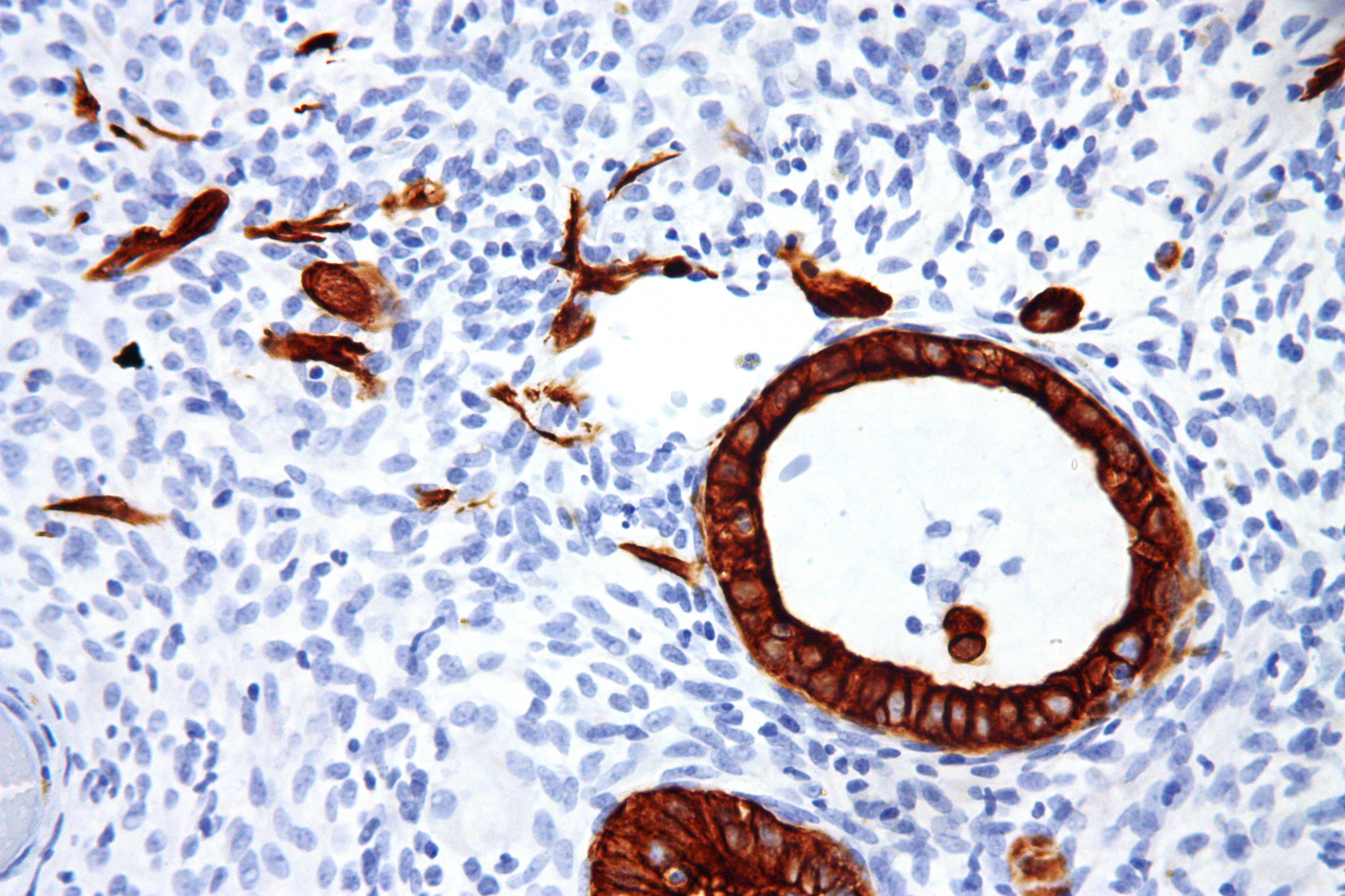 High magnification micrograph of intermediate trophoblast and an endometrial gland. Low molecular weight cytokeratin (LMWCK) immunohistochemical stain. Related images Intermed. mag. Intermed. mag. High mag. High mag. (LMWK)